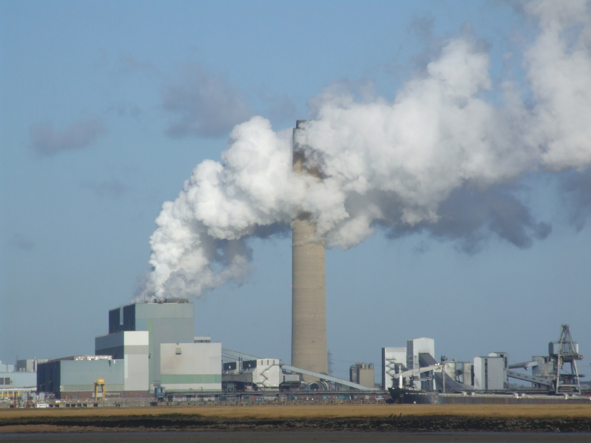 Kingsnorth Power Station, Hoo, Kent, United Kingdom, releasing steam. - OpenStreetMap(Info)